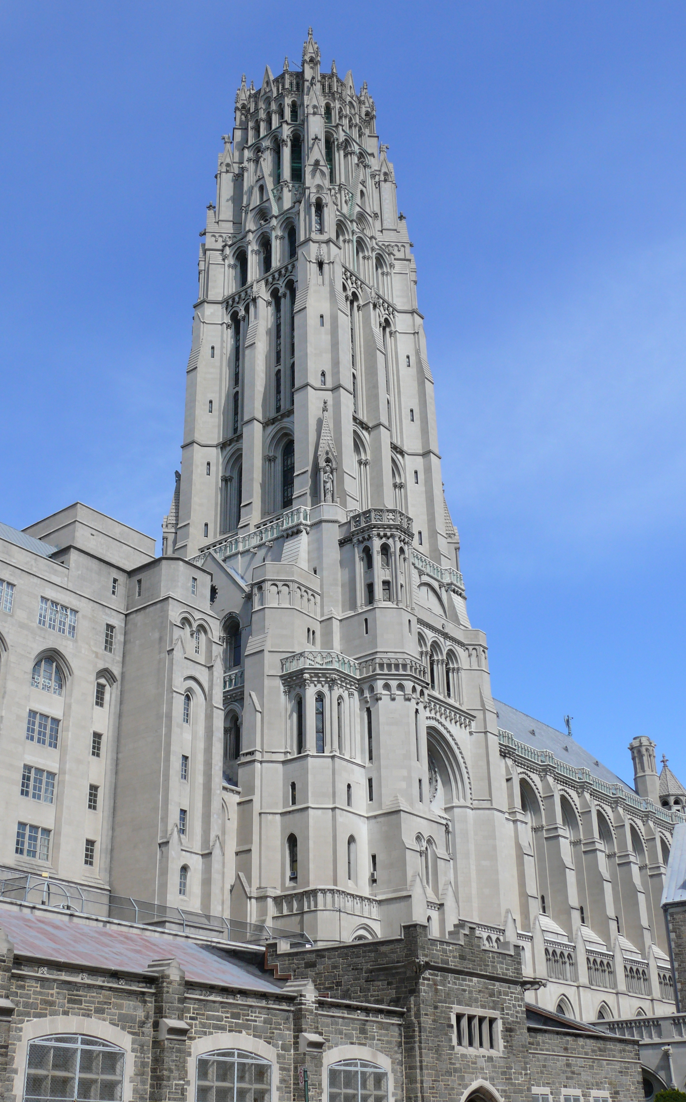 Riverside Church, in the City of New York is an interdenominational American Baptist and United Church of Christ church in New York City, famous for its elaborate Neo-Gothic architecture and its history of social justice.